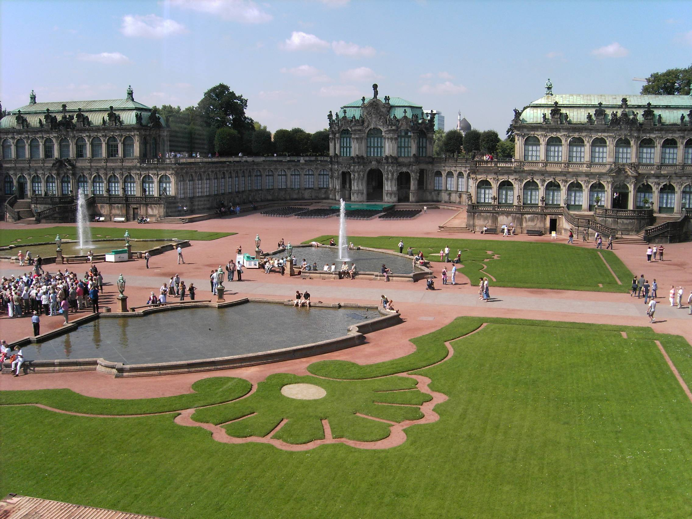 Dresdner Zwinger